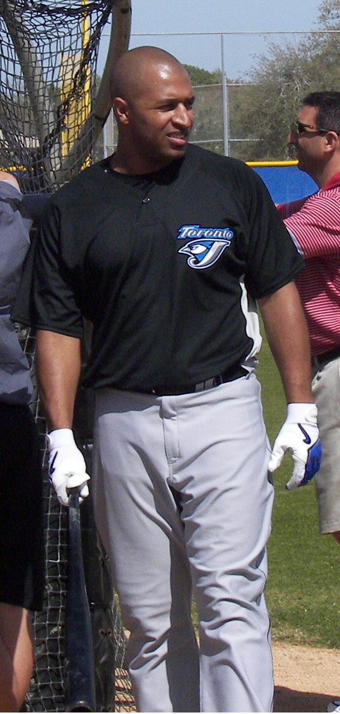 Toronto Blue Jays outfielder Vernon Wells during a spring training workout at the Blue Jays' spring training complex in Dunedin, Florida.